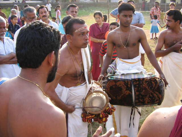 An Idakka artist in a Panchavadyam performance.